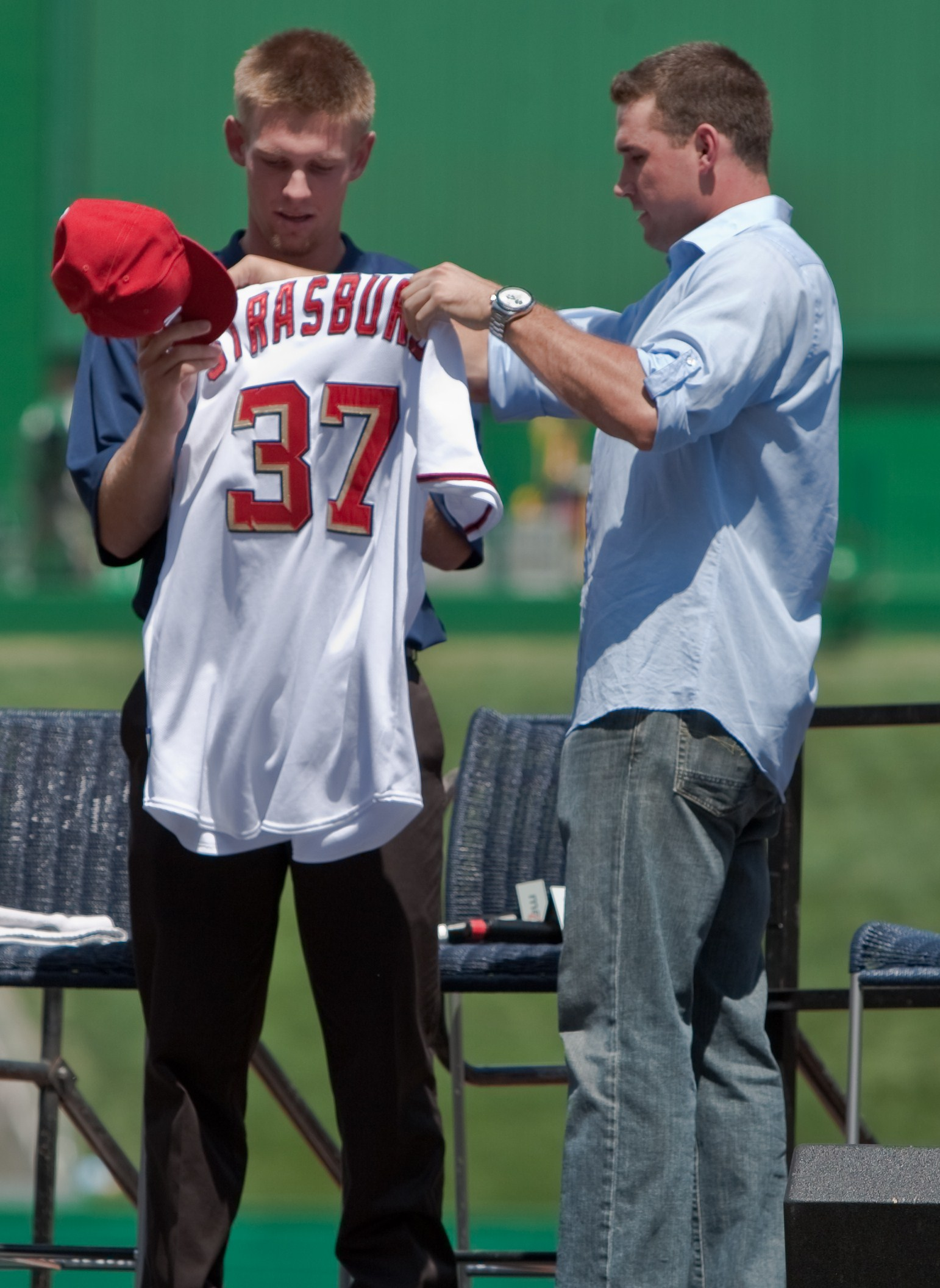 Stephen Strasburg (left) and Ryan Zimmerman